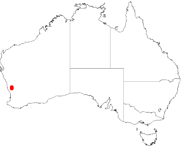 Acacia aristulata Occurrence data from AVH downloaded 8 December 2018